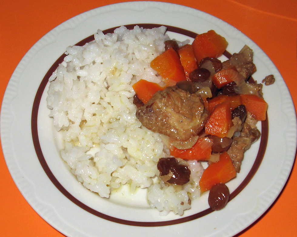 Tzimmes self-made (with rice) Беларуская (тарашкевіца): Цымес уласнага прыгатаваньня з рысам